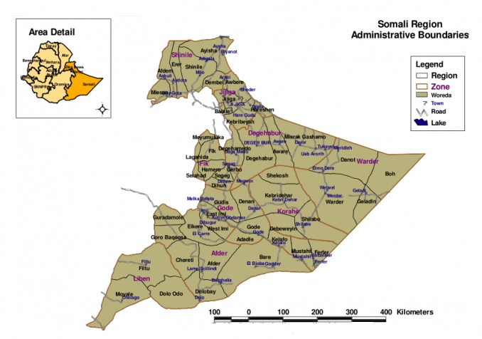 Ogaden Region of Ethiopia Area:279,252 km² Population: 4.5 m